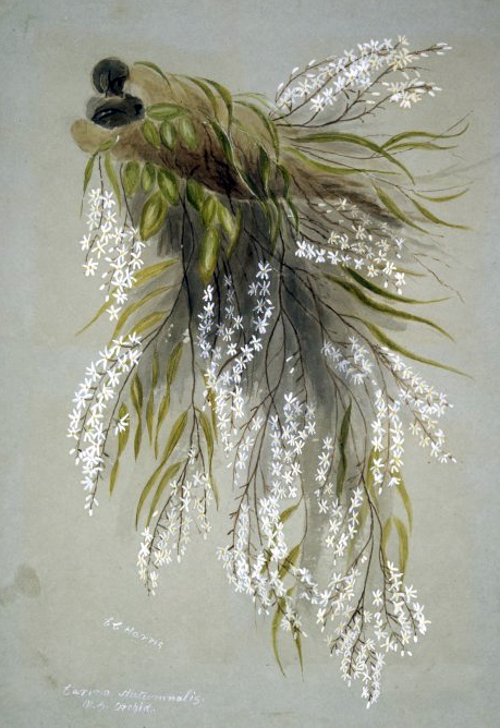 Earina autumnalis, a native New Zealand orchid in flower against a dark background